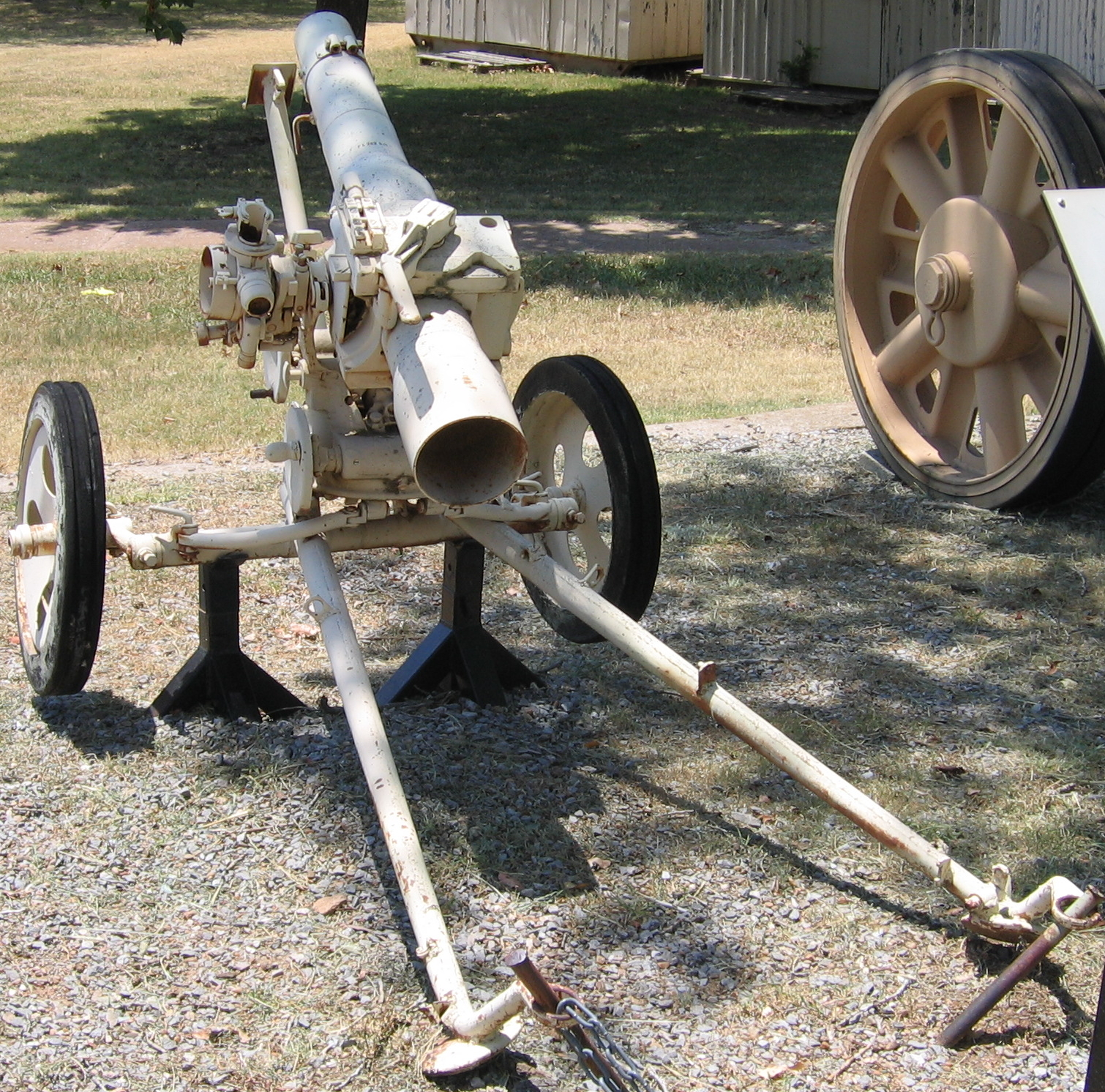 A German 75mm Leichte Geshütz 40 (LG-40), U.S. Army Field Artillery Museum, Ft. Sill, Oklahoma